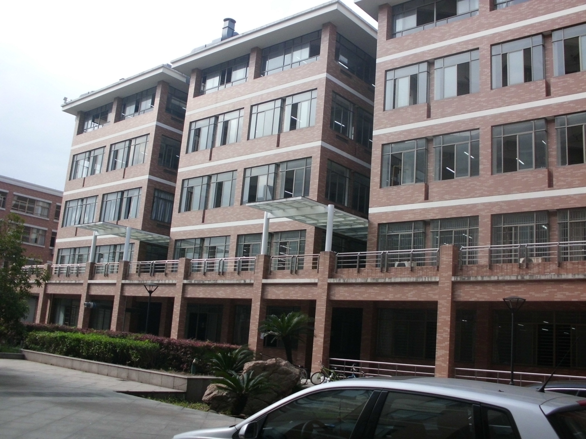 Zhejiang Sci-Tech University campus